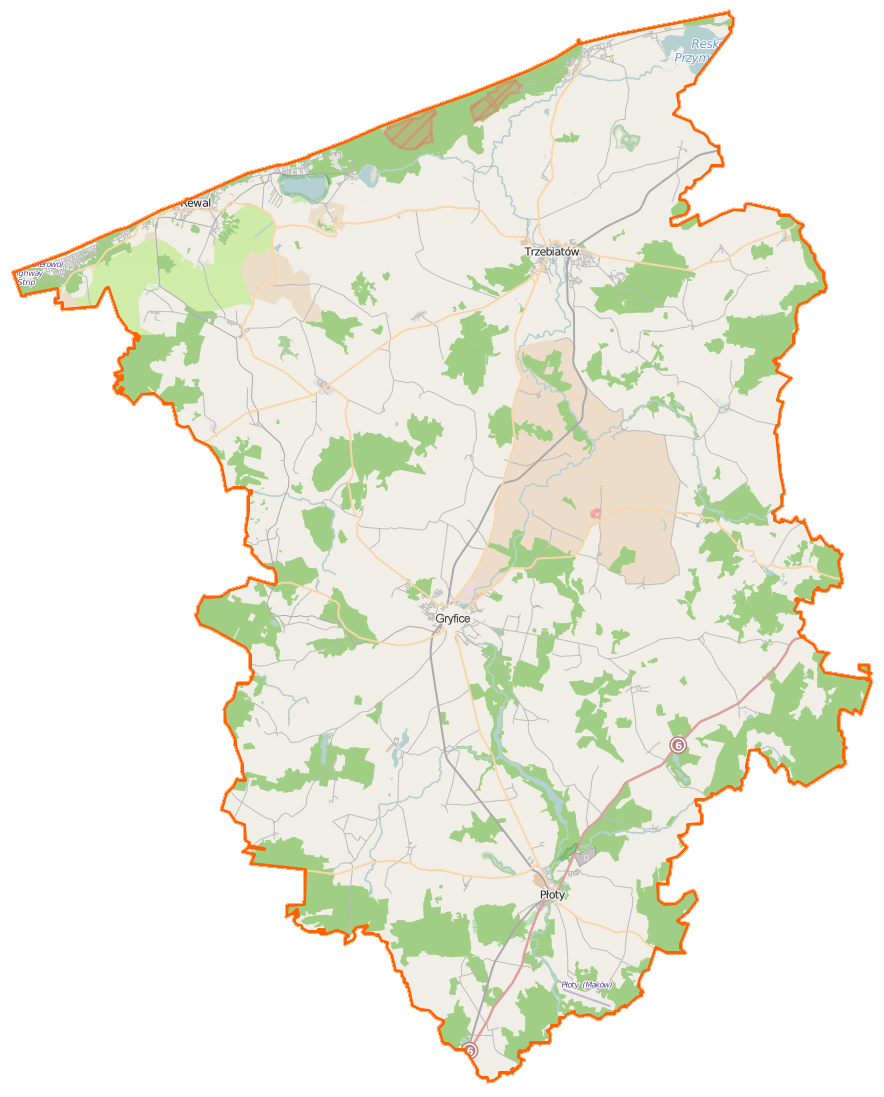 Map of Powiat gryficki, Poland This map of Powiat gryficki was created from OpenStreetMap project data, collected by the community. This map may be incomplete, and may contain errors. Don't rely solely on it for navigation.